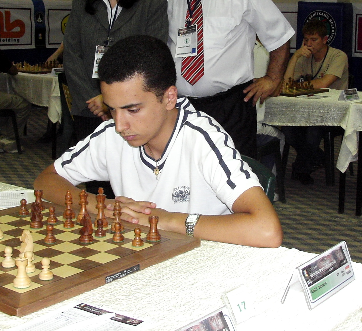 GM Bassem Amin Egypt, World Junior Chess Championship, Gaziantep 2008